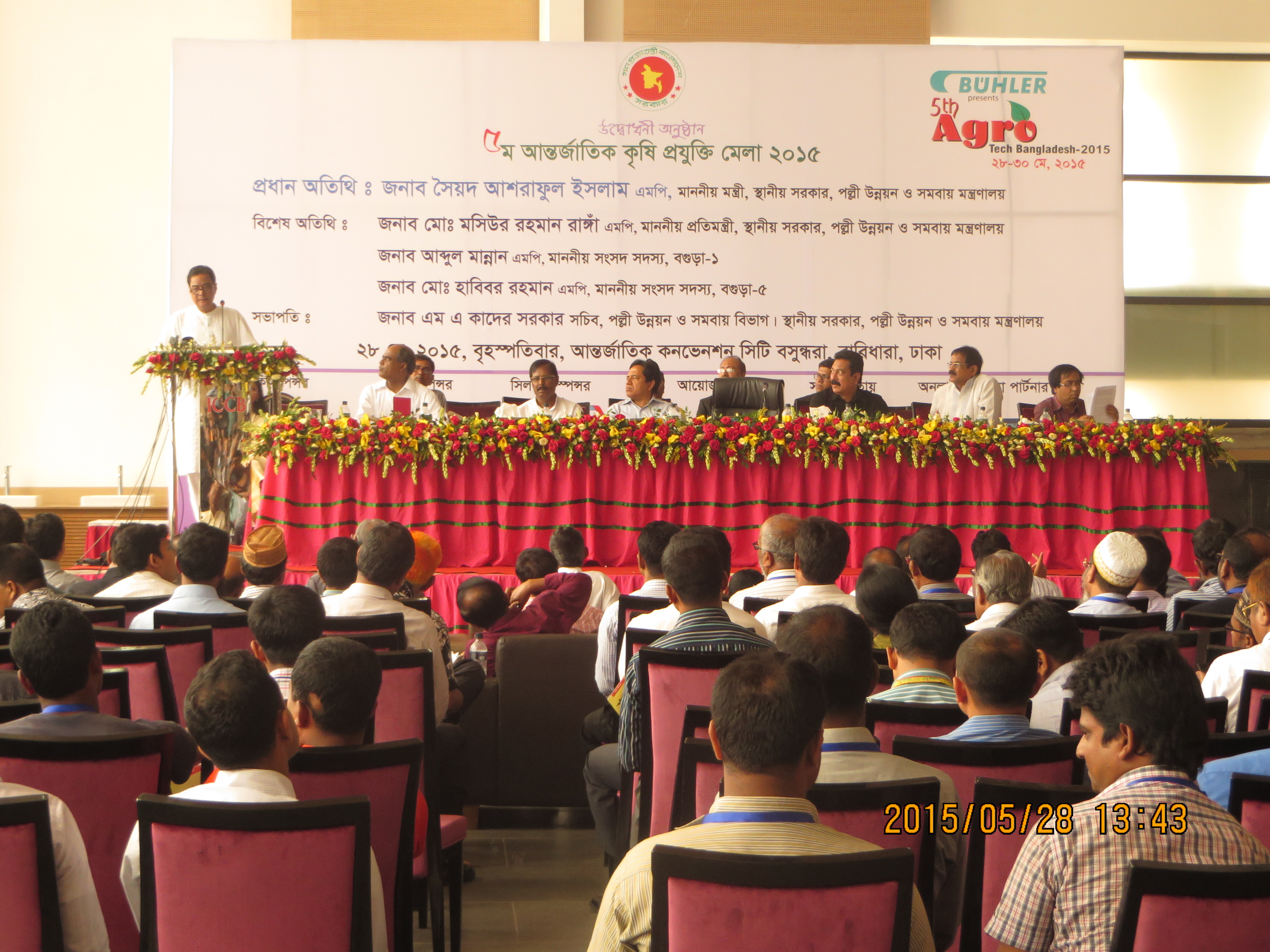 5th Agro Tech Bangladesh, 28-30 May, 2015 at Basundhara International Convention City, Dhaka